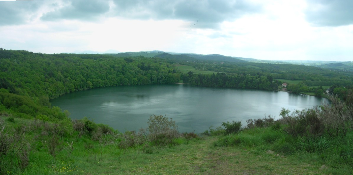 Gour de Tazenat (Puy-de-Dôme, France). Auteur/Author Romary 2004